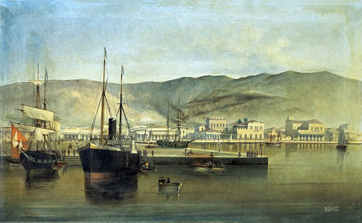 The Port of Volos, oil painting.